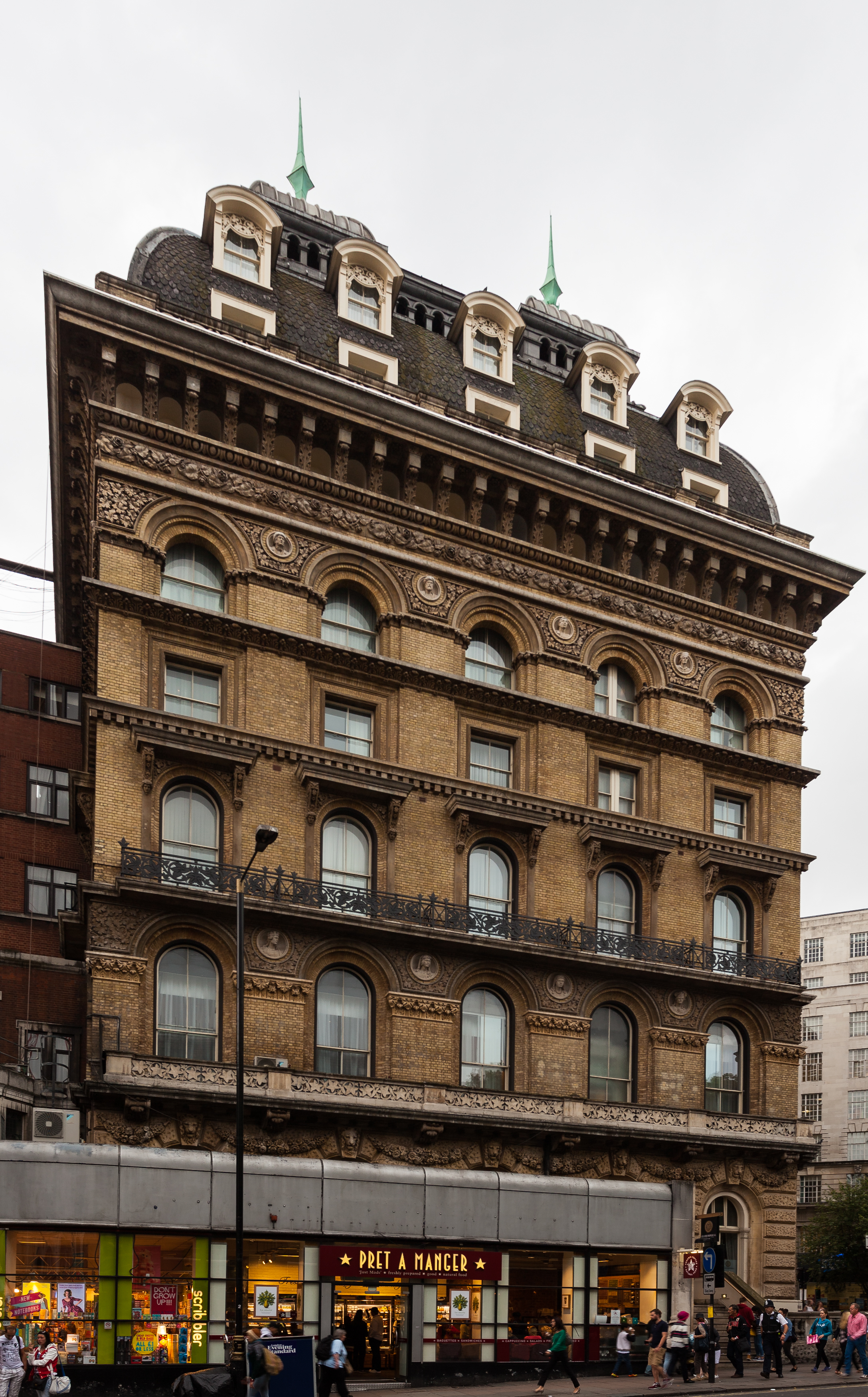 Grosvenor Hotel, London, England